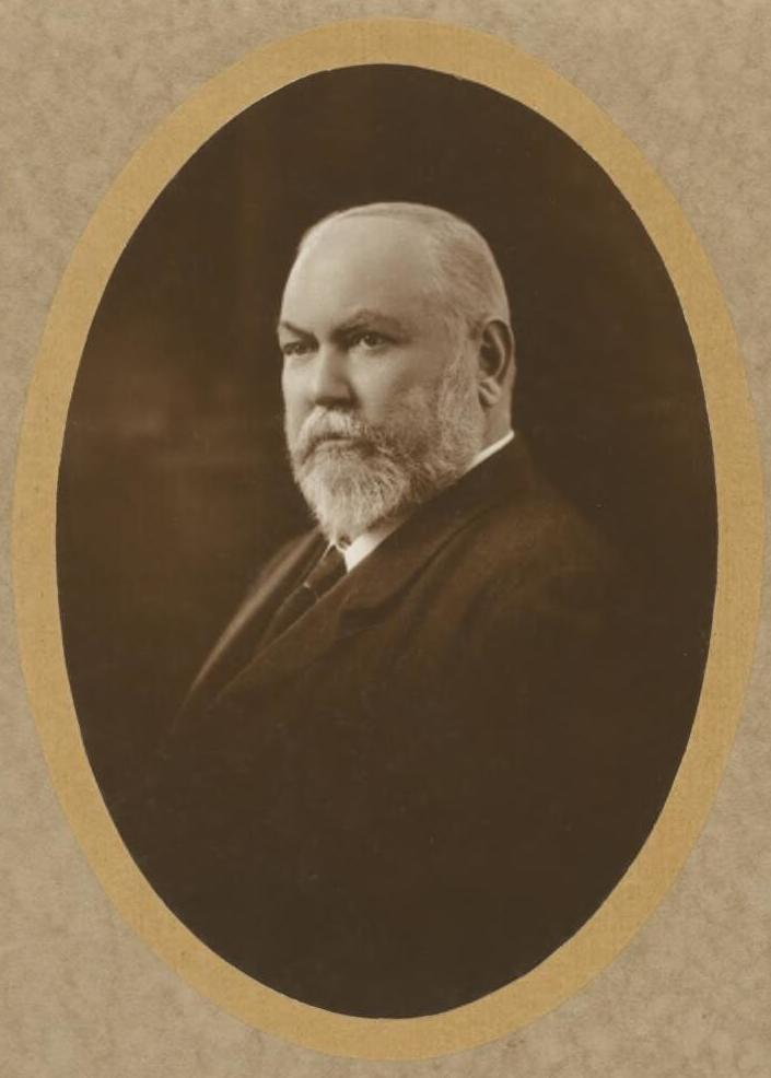 Australian politician John Forrest